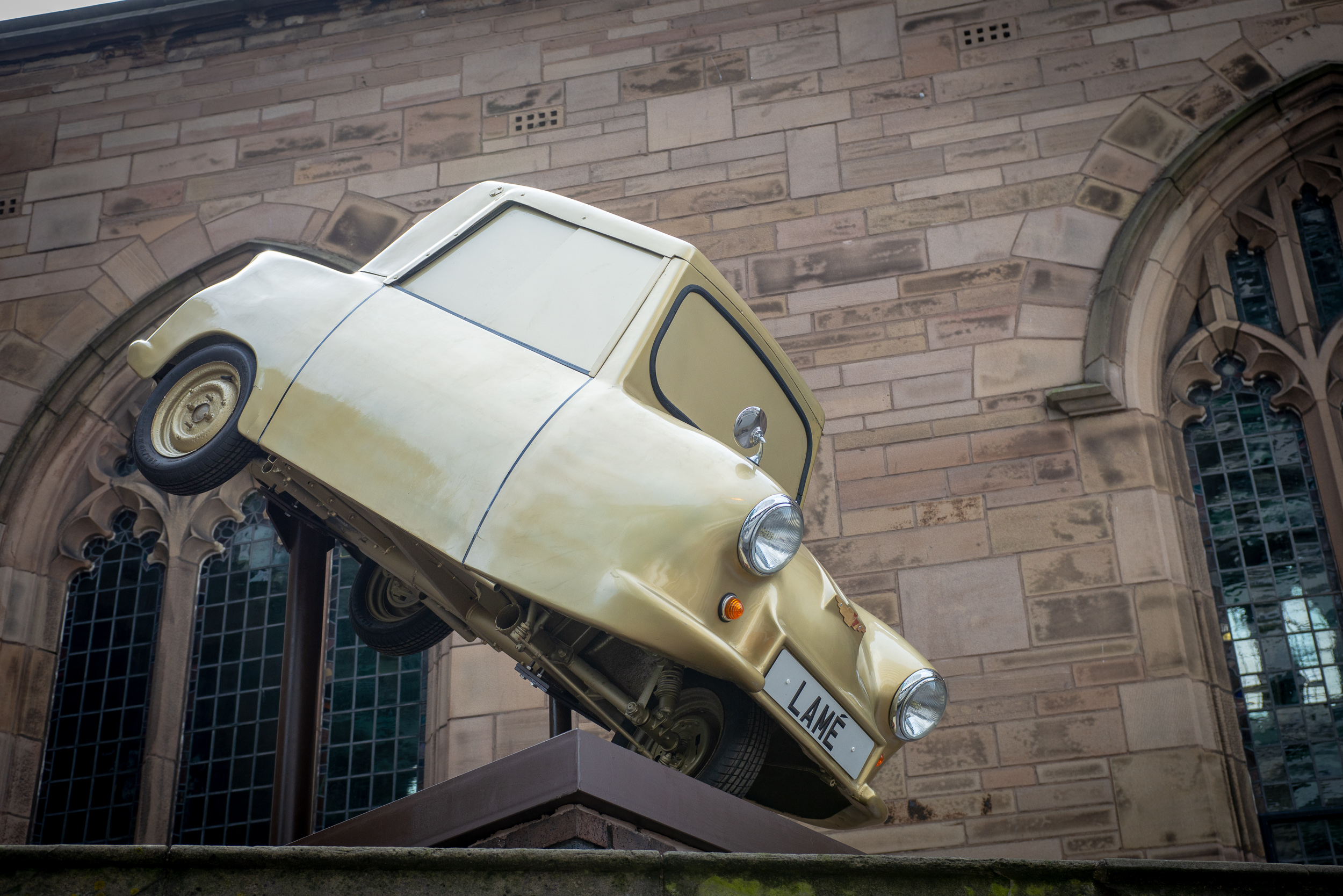 Gold Lamé by Tony Heaton, sculpture showcased in The Liverpool Plinth in 2018. It was originally commissioned as part of Art of the Lived Experiment for DaDaFest 2014 at the Bluecoat.